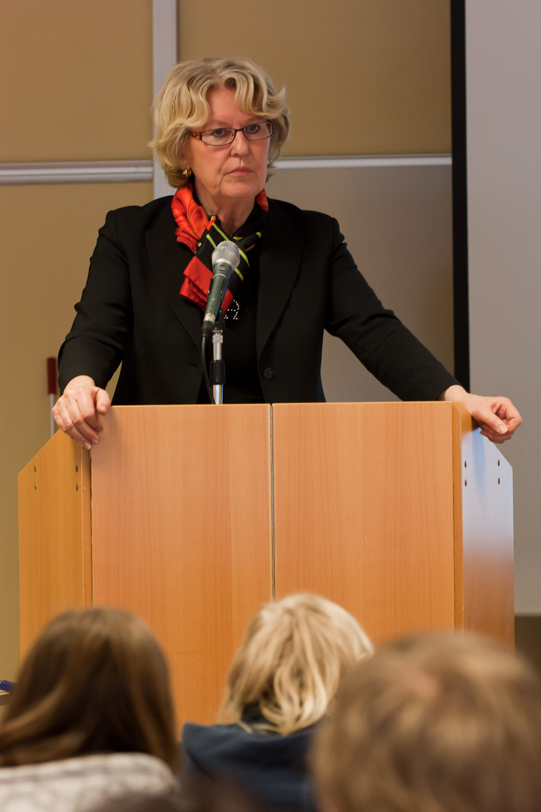 Metta Fjelkner, President of National Union of Teachers in Sweden